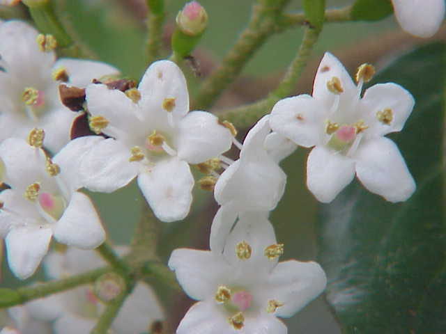 Species: Viburnum utile Family: Adoxaceae (formerly in Caprifoliaceae) Image No. 1